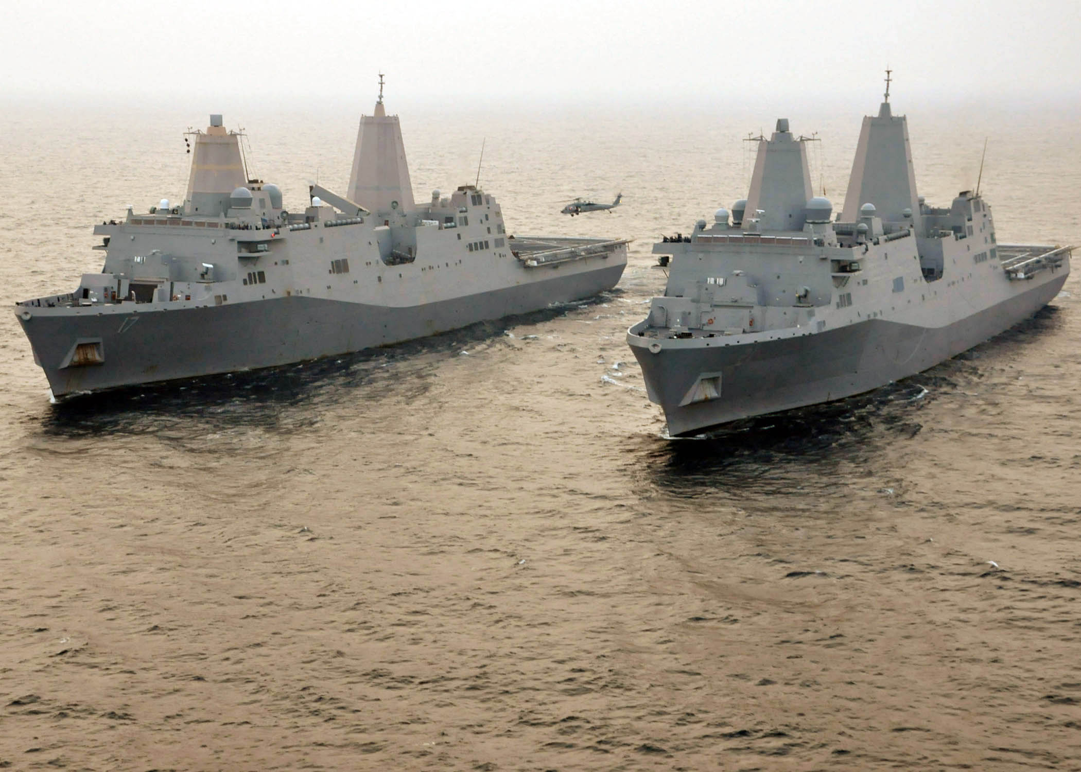 ATLANTIC OCEAN (June 9, 2011) The amphibious transport dock ships USS San Antonio (LPD 17) and USS New York (LPD 21) are underway together in the Atlantic Ocean off the coast of Virginia. San Antonio is conducting ship handling drills with New York during San Antonio's second phase of sea trials, which are primarily focused on combat systems testing and developing crew proficiency. (U.S. Navy photo by Mass Communication Specialist 1st Class Edwin F. Bryan/Released)